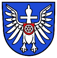 Coat of arms of Kirchgandern